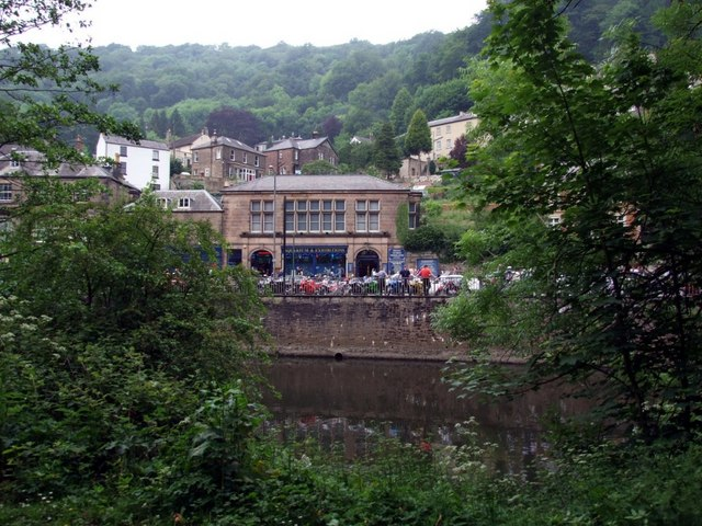 The Old Spa This building was once the original Spa building in Matlock Bath. It still contains the swimming pool but it is inhabited by Koi Carp. It is now a visitor attraction with aquariums and holographic image displays. It stands on the Northwest side of the A6 and is pictured from across the River Derwent.